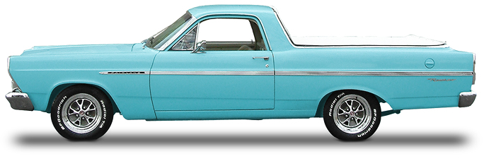 1967 Ford Fairlane Ranchero. Photographed by Bill Wrigley in Toronto, Canada on November 14, 2002 with a Fujipix 602 digital camera and altered in Photoshop.